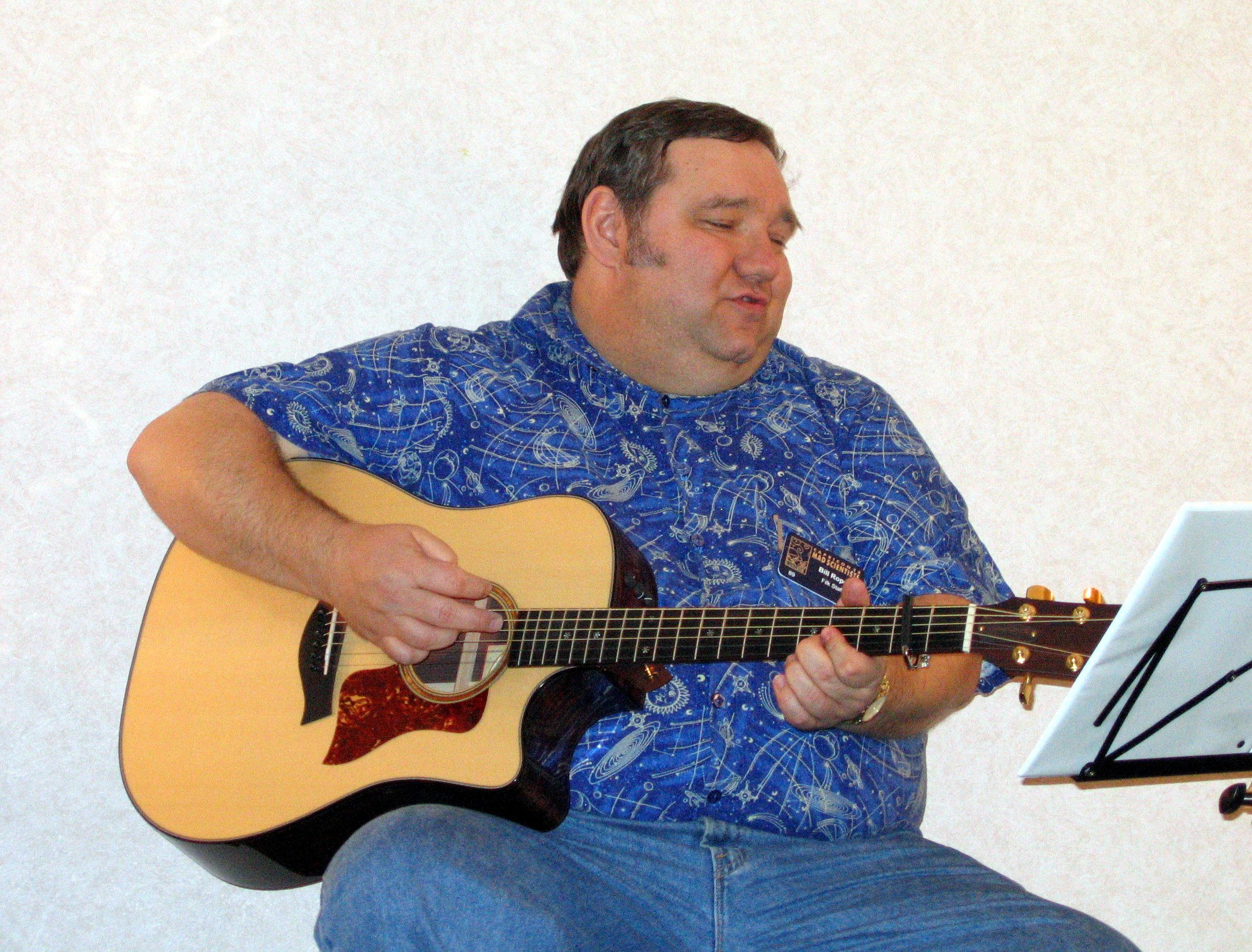 Bill Roper, in concert in the Internet cafe at Capricon 2005Bill Roper